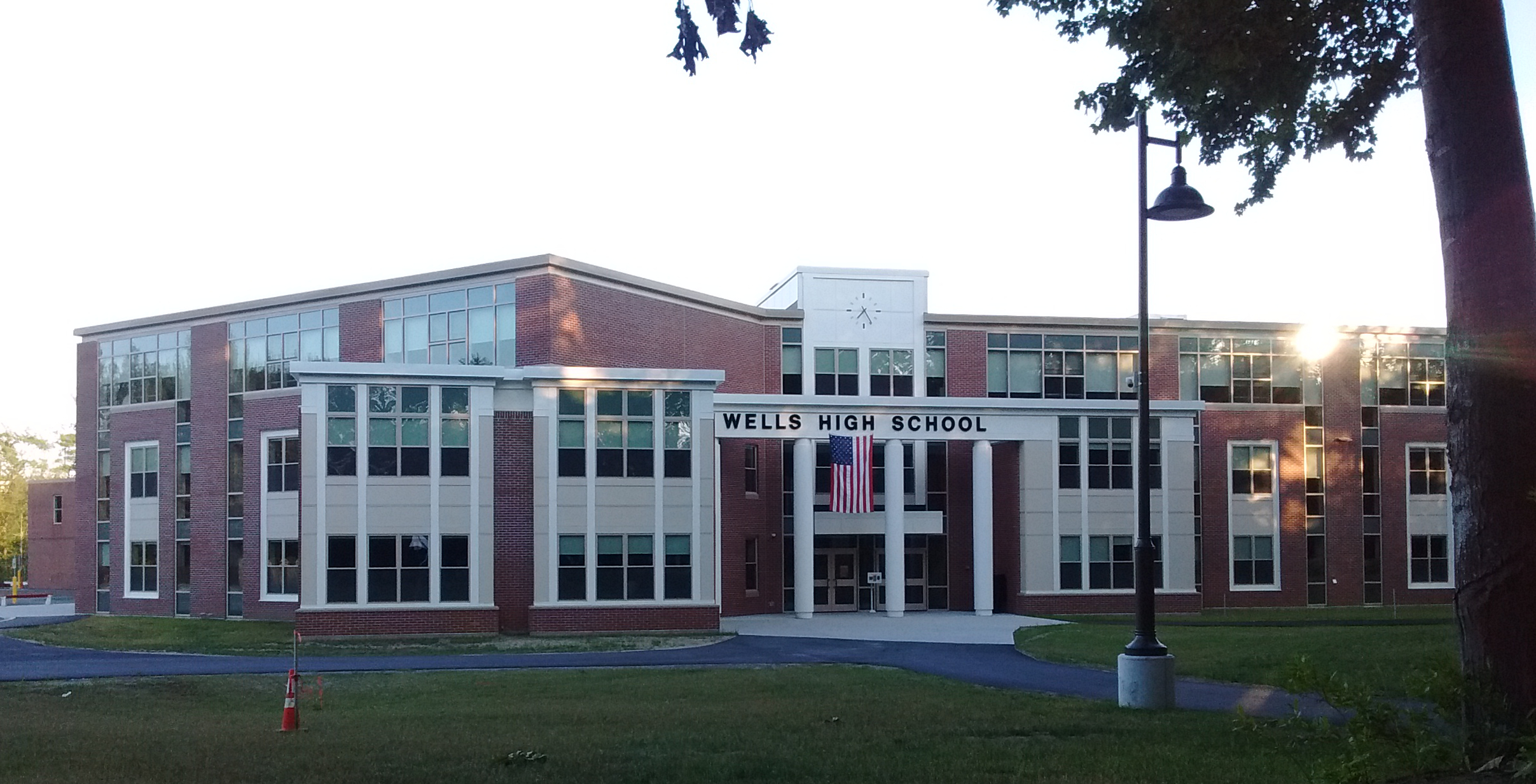 Wells High School, Wells, ME. The front entrance of the renovated 1977 building.